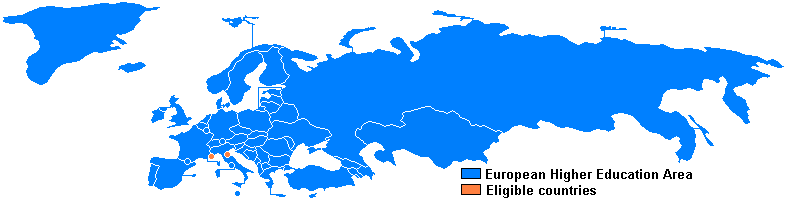 European Higher Education Area